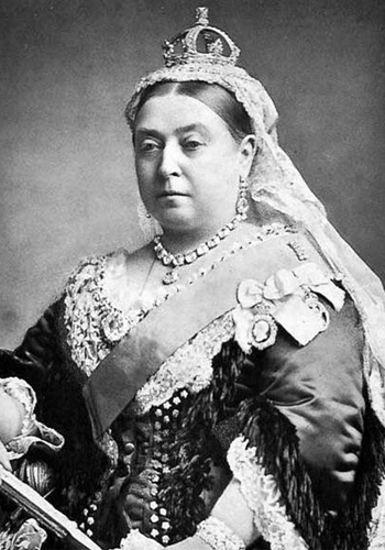 Portrait of Victoria of the United Kingdom